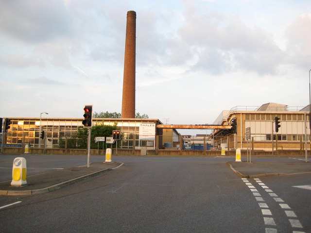 Crawley: Manor Royal: Thales chimney Thales are the second largest defence contractor in the UK. This brick chimney was on their Manor Royal site next to London Road. The chimney was demolished on 20 July 2009 and the other 1960s buildings shown were also demolished during 2009 to make way for Thales's re-development of the Manor Royal site.